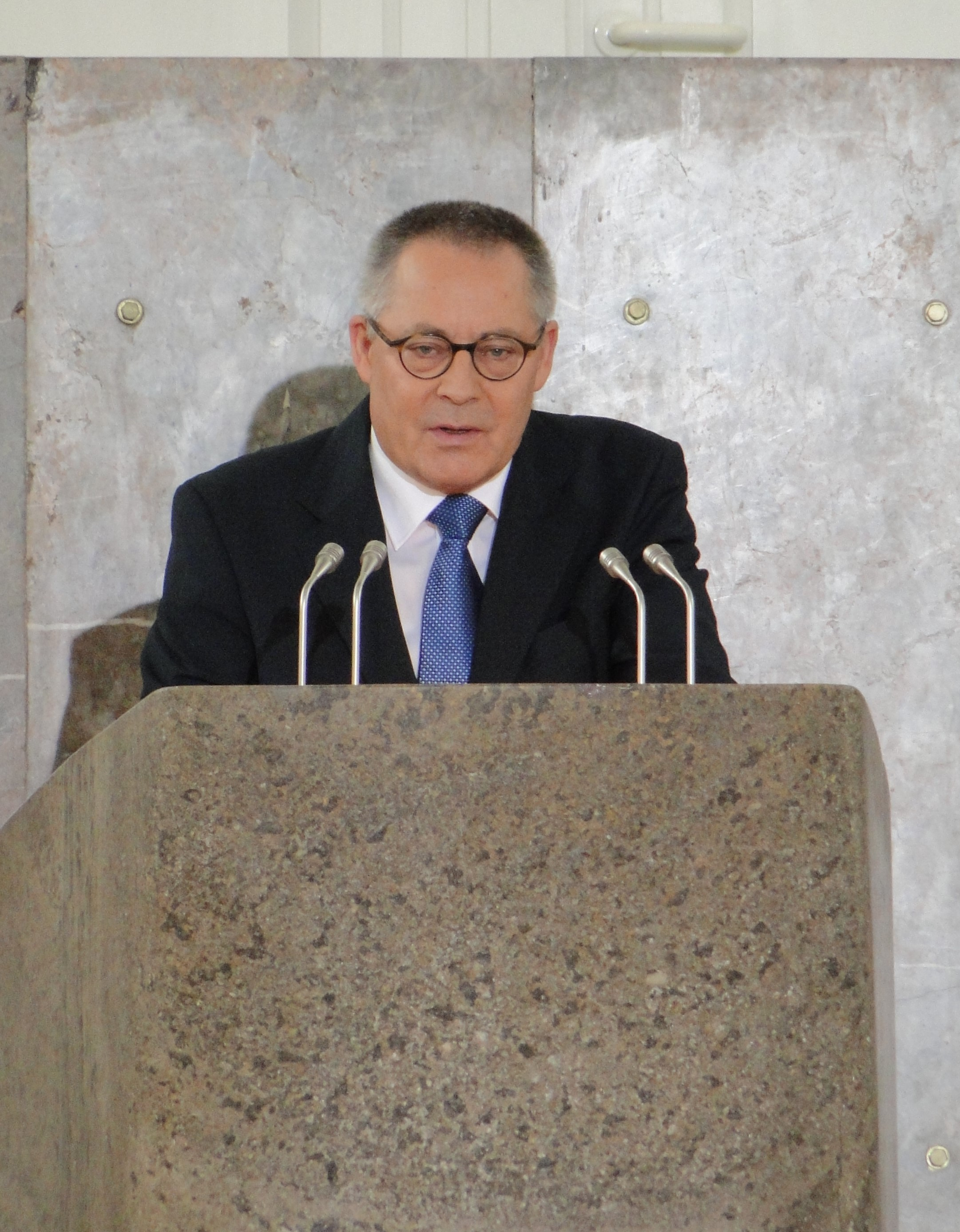 Karl Schloegel, laudator, "Peace Prize of the German Book Trade" 2009, at "Paulskirche" in Frankfurt am Main